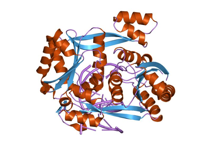 Cartoon representation of the molecular structure of protein registered with 2p0j code.